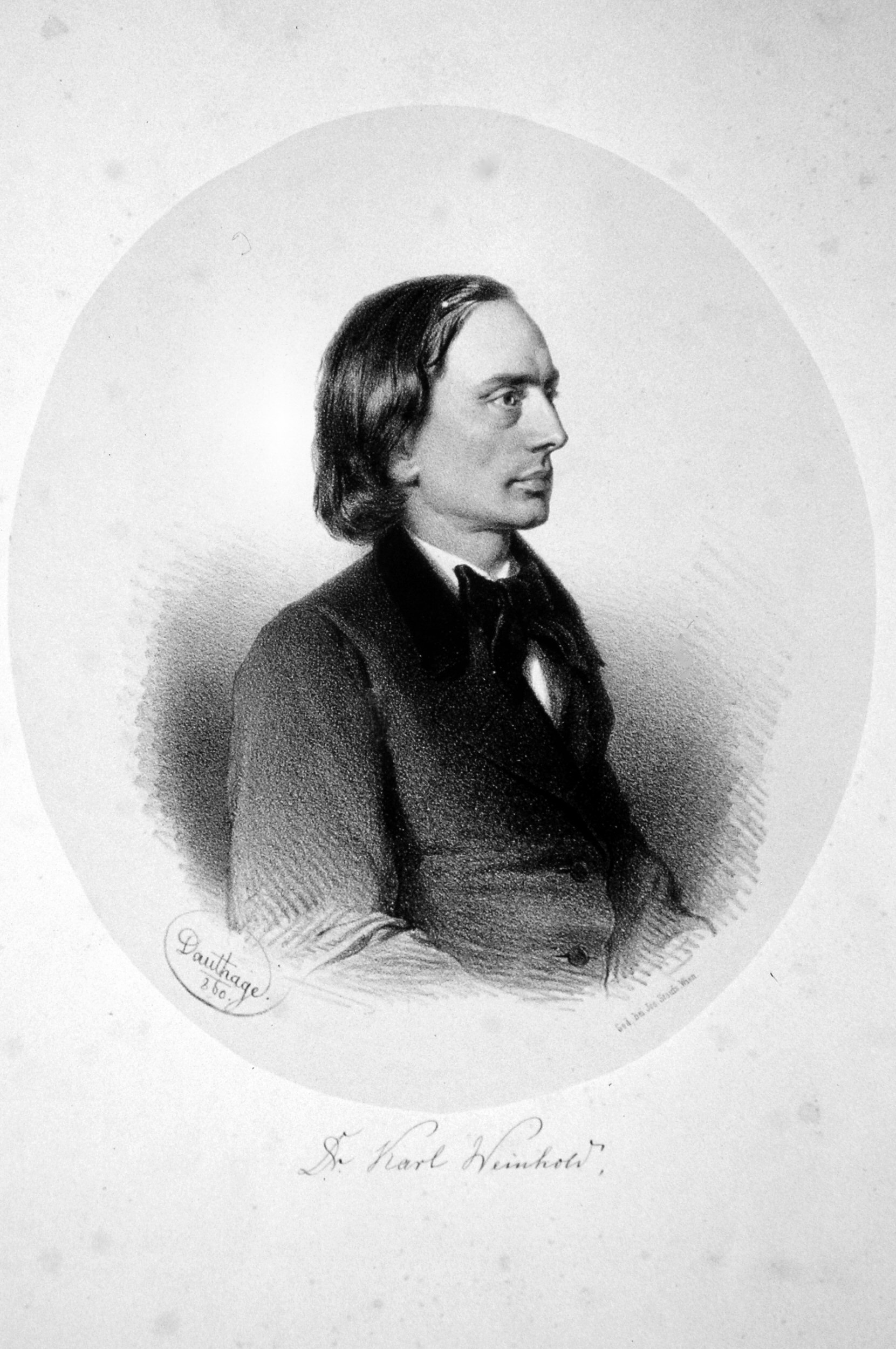 Depicted person: Karl Weinhold – German folklorist and linguist